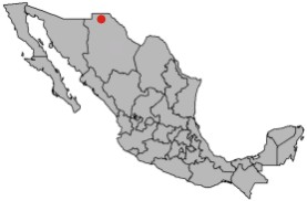 —Location map of Palomas (Puerto Palomas) — on the border in Chihuahua, México.